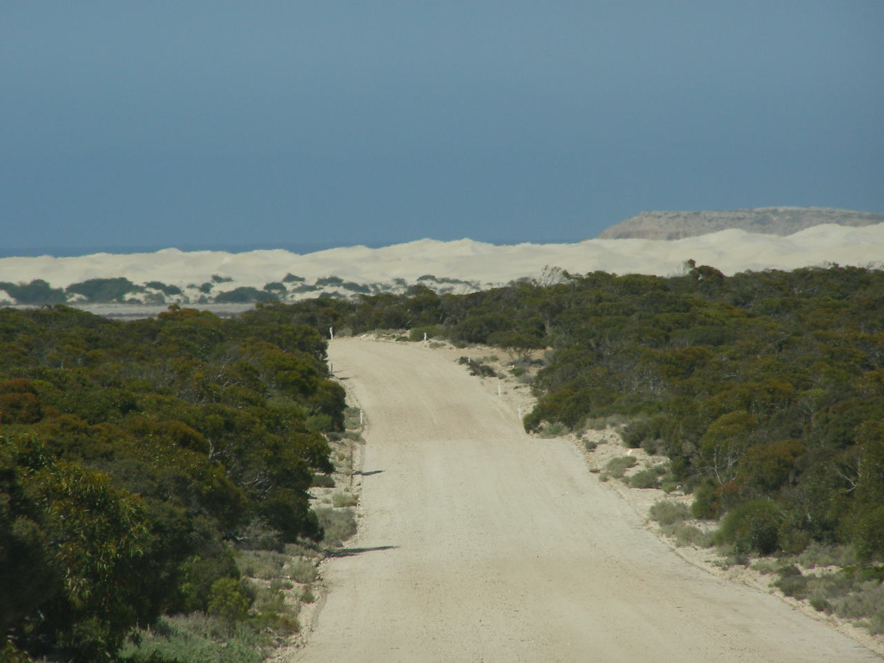 Approaching Fowlers Bay, South Australia